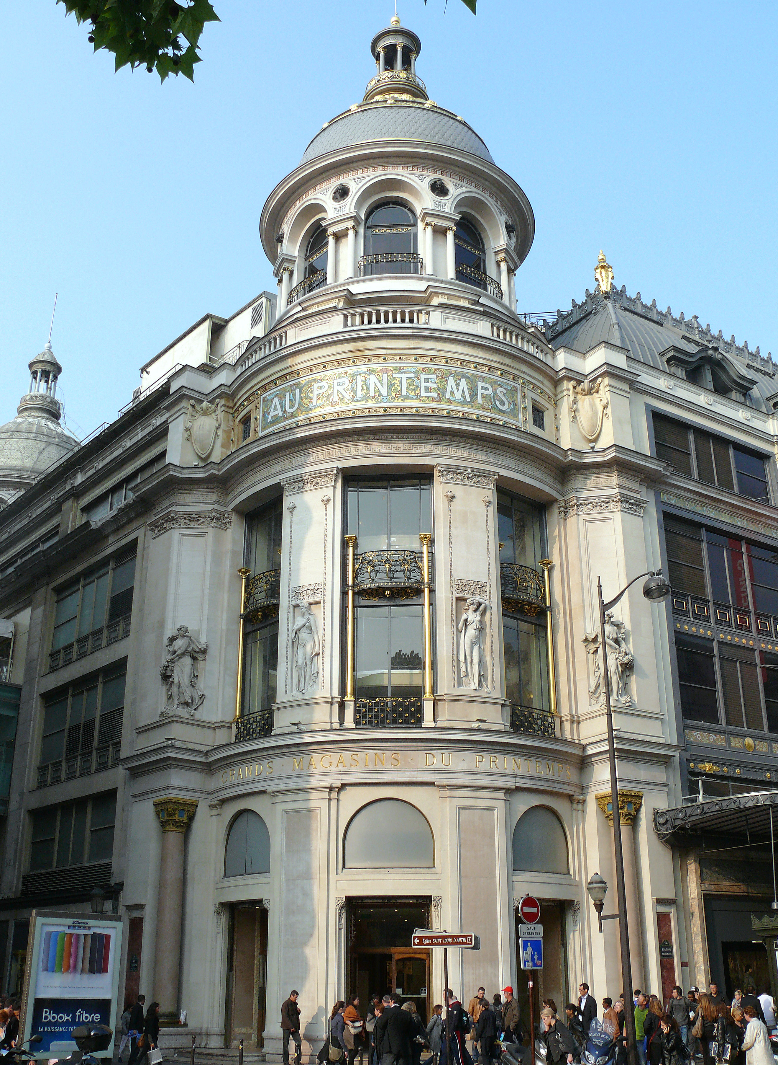 North east corner of Boulevard Haussmann / Rue de Caumartin, Paris